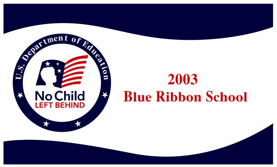 Award signifying a U.S. Department of Education Blue Ribbon School in 2003.